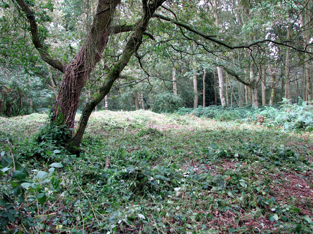 The site of St William's chapel in Mousehold Heath